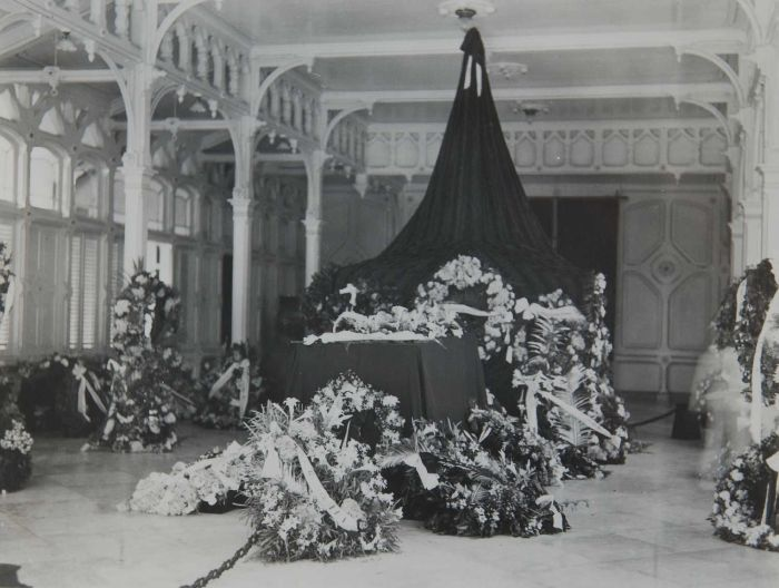 The coffin with the body of A.P. van Aken in the house of the governor of Aceh at Koetaradja